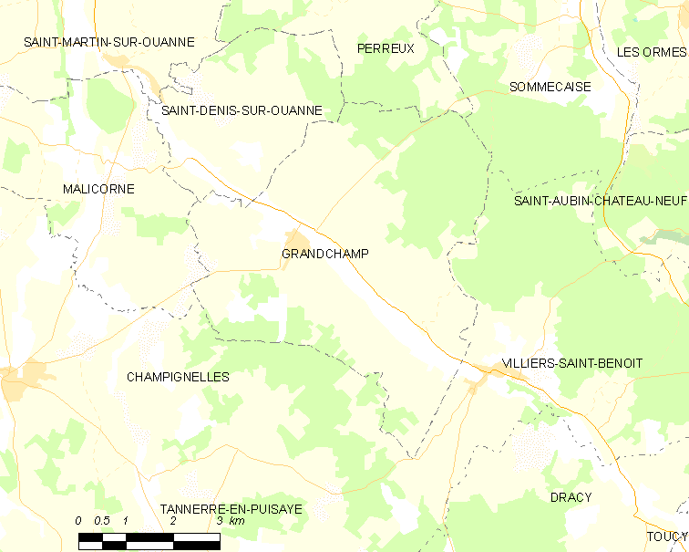 Map of French municipality Grandchamp